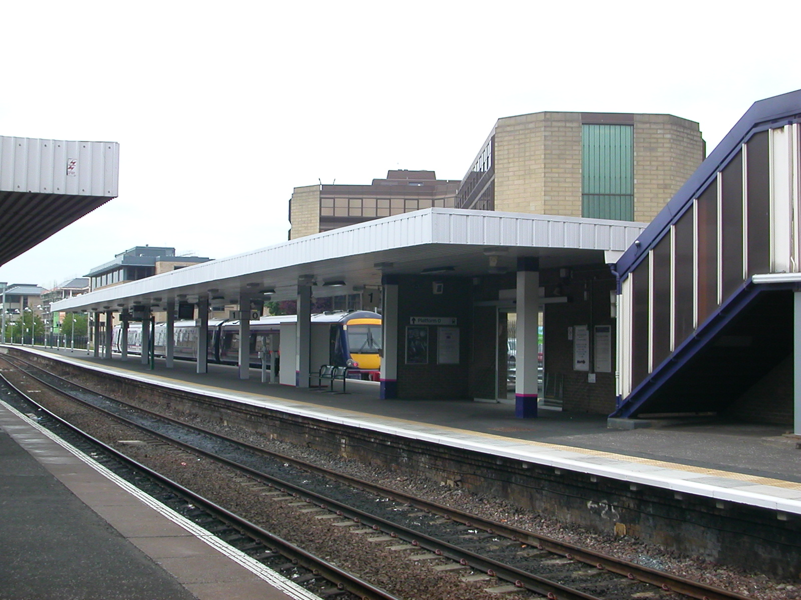 The new Platform 0 at Haymarket station (Edinburgh). Photographed on 6th June 2007.